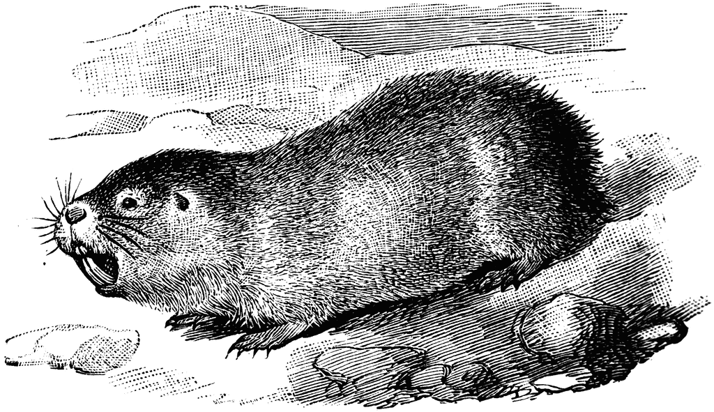 Cape Mole Rat Georychus capensis